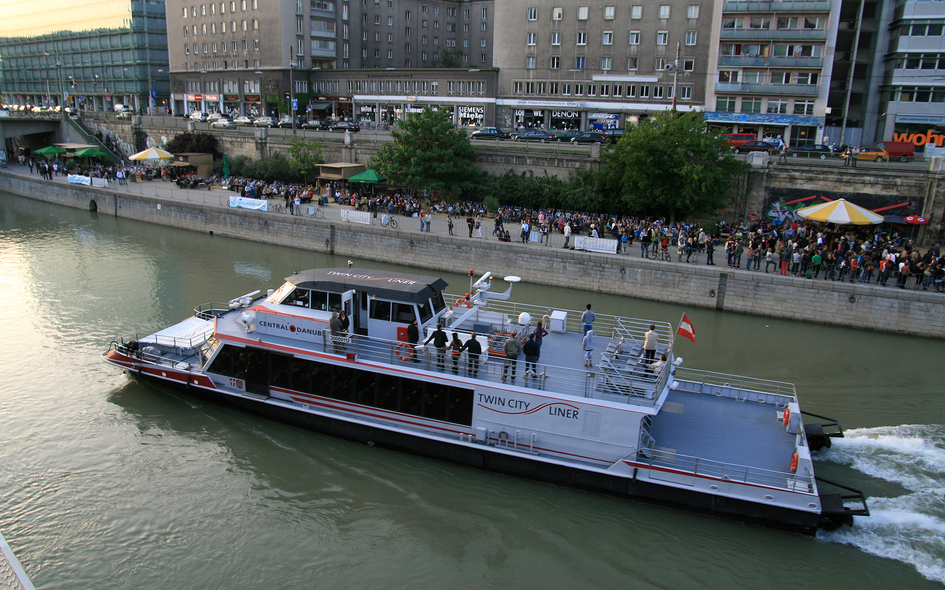 The Twin City Liner arriving in Vienna during Aminata and the Astronauts' concert at the Donaukanaltreiben 2012.